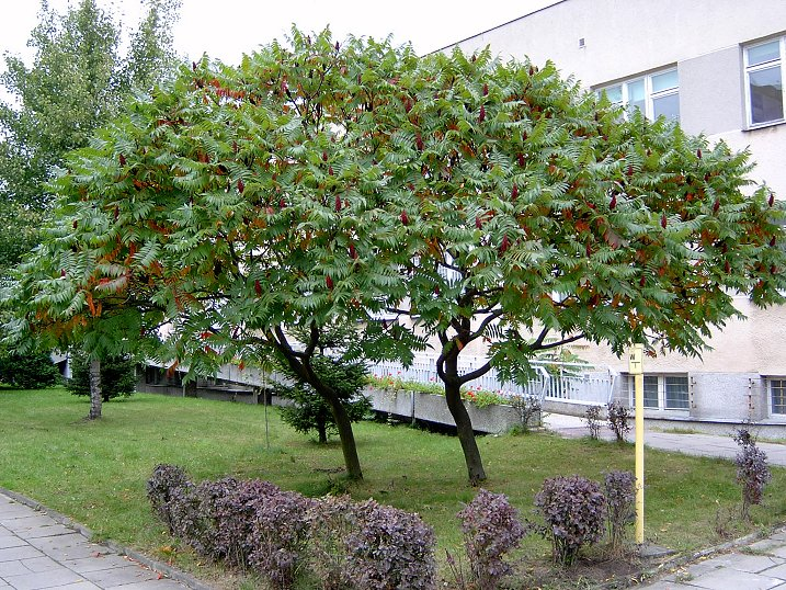 Rhus typhina